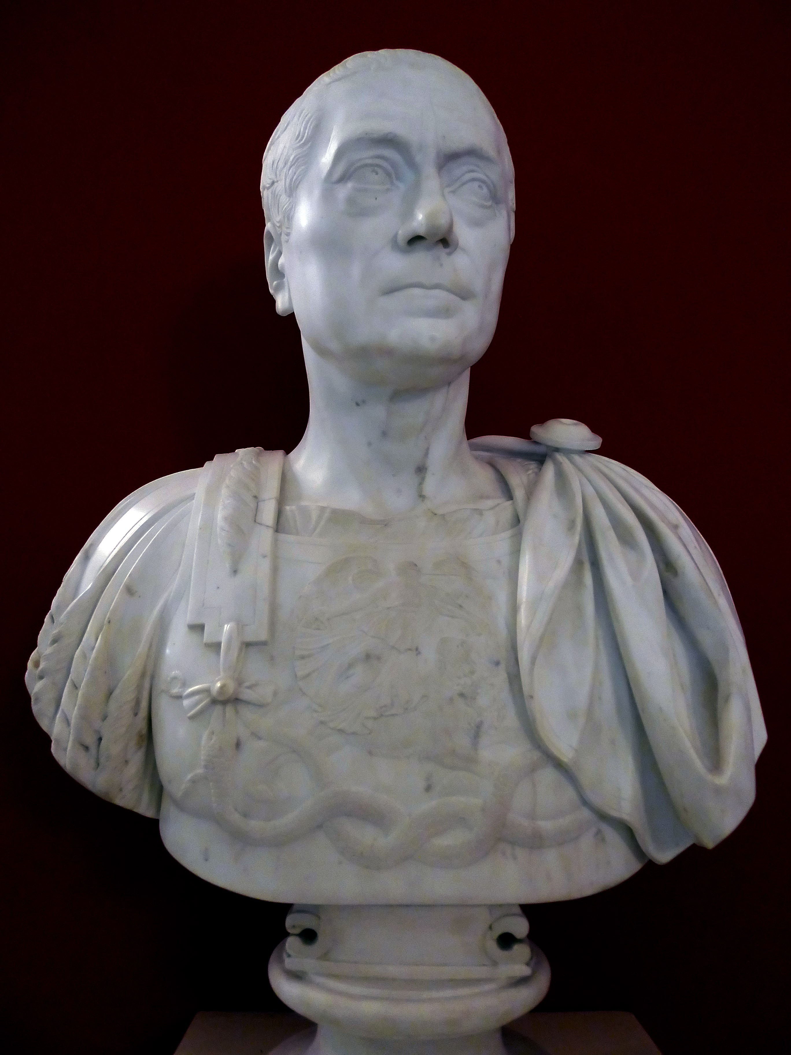 Franz Moritz Graf von Lacy, Austrian field marshal. Marble bust, Heeresgeschichtliches Museum Wien.